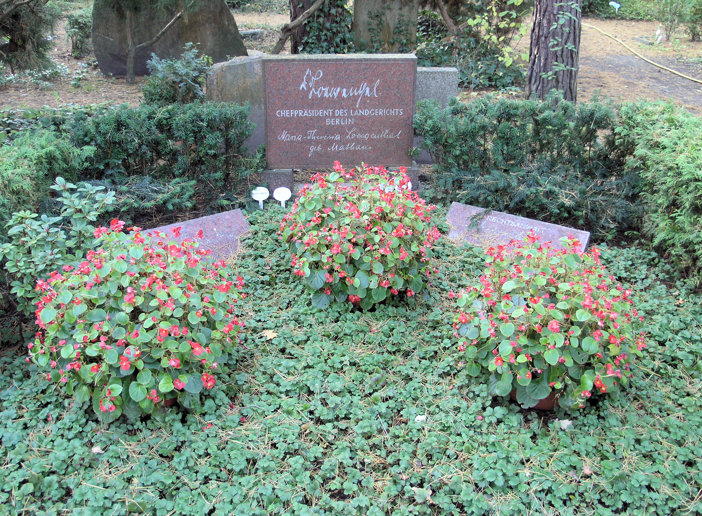 Graves, Siegfried Loewenthal, Hüttenweg 47, Berlin-Dahlem, Germany Koordinate:52°27′20″N 13°15′49″E / 52.45556°N 13.26361°E